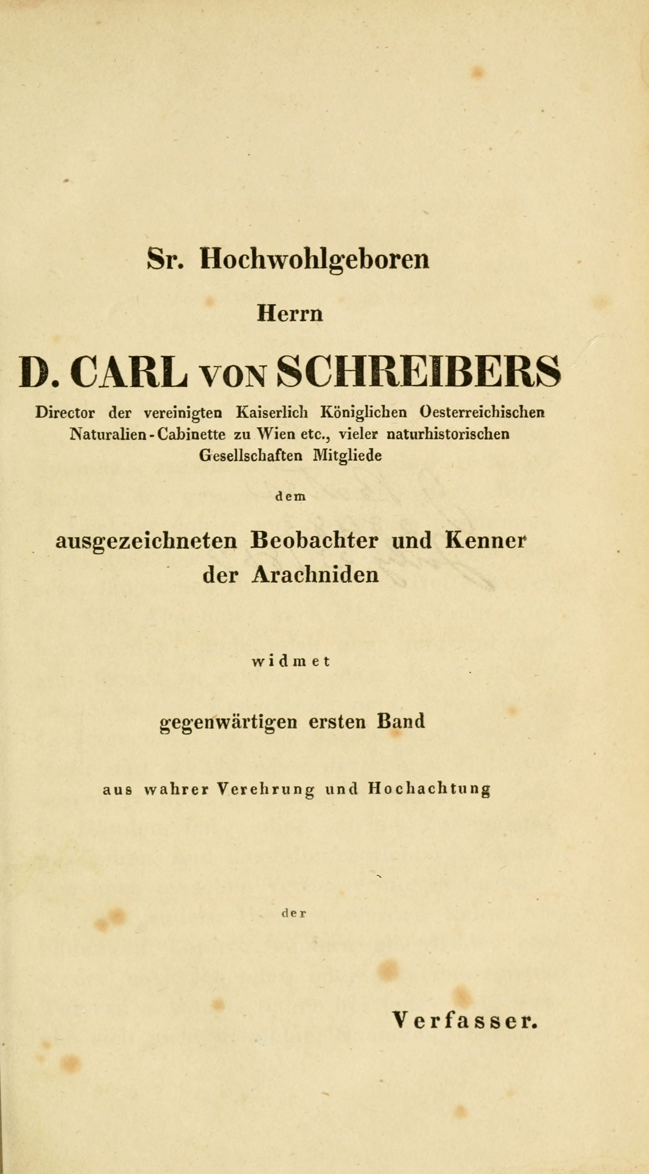 Carl Wilhelm Hahn: Die Arachniden. Erster Band. C. H. Zeh´sche Buchhandlung, Nürnberg 1831-1833, dedication